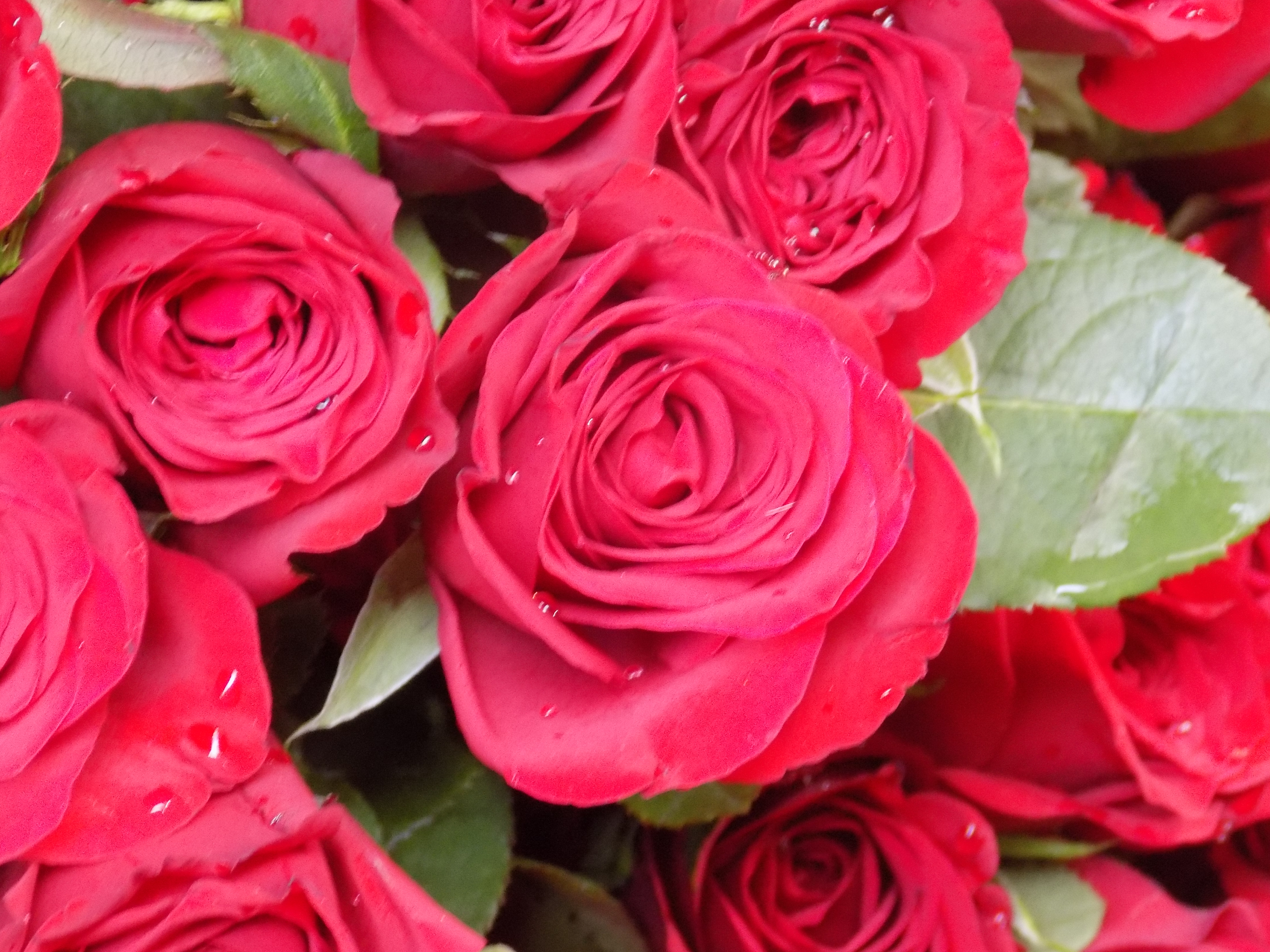 indian red roses